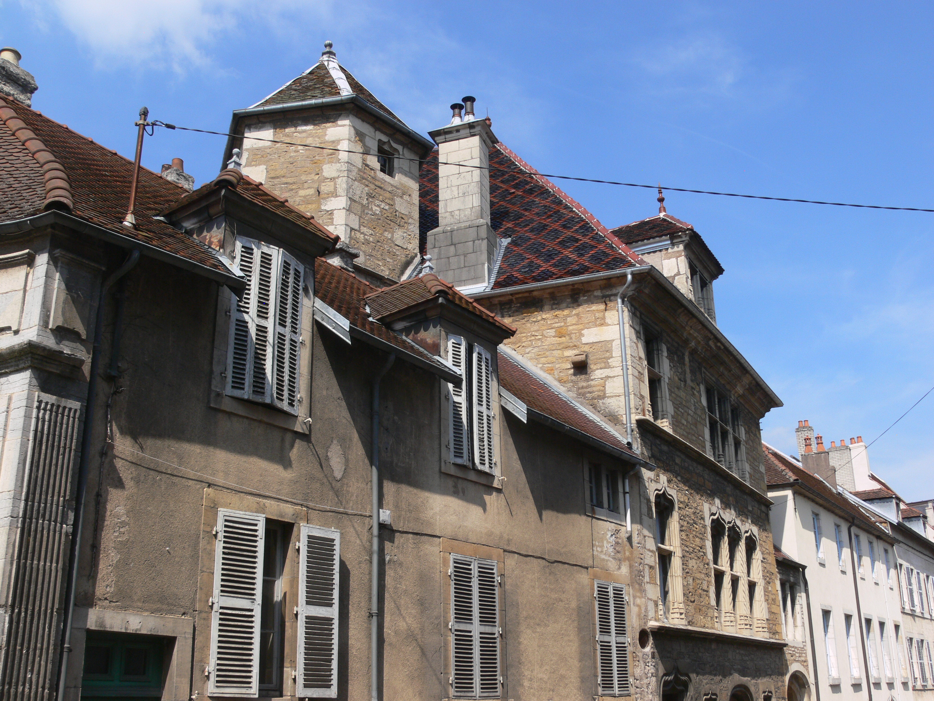 Buildings between entrance and Facade of hôtel Thomassin (Vesoul, Haute-Saône)